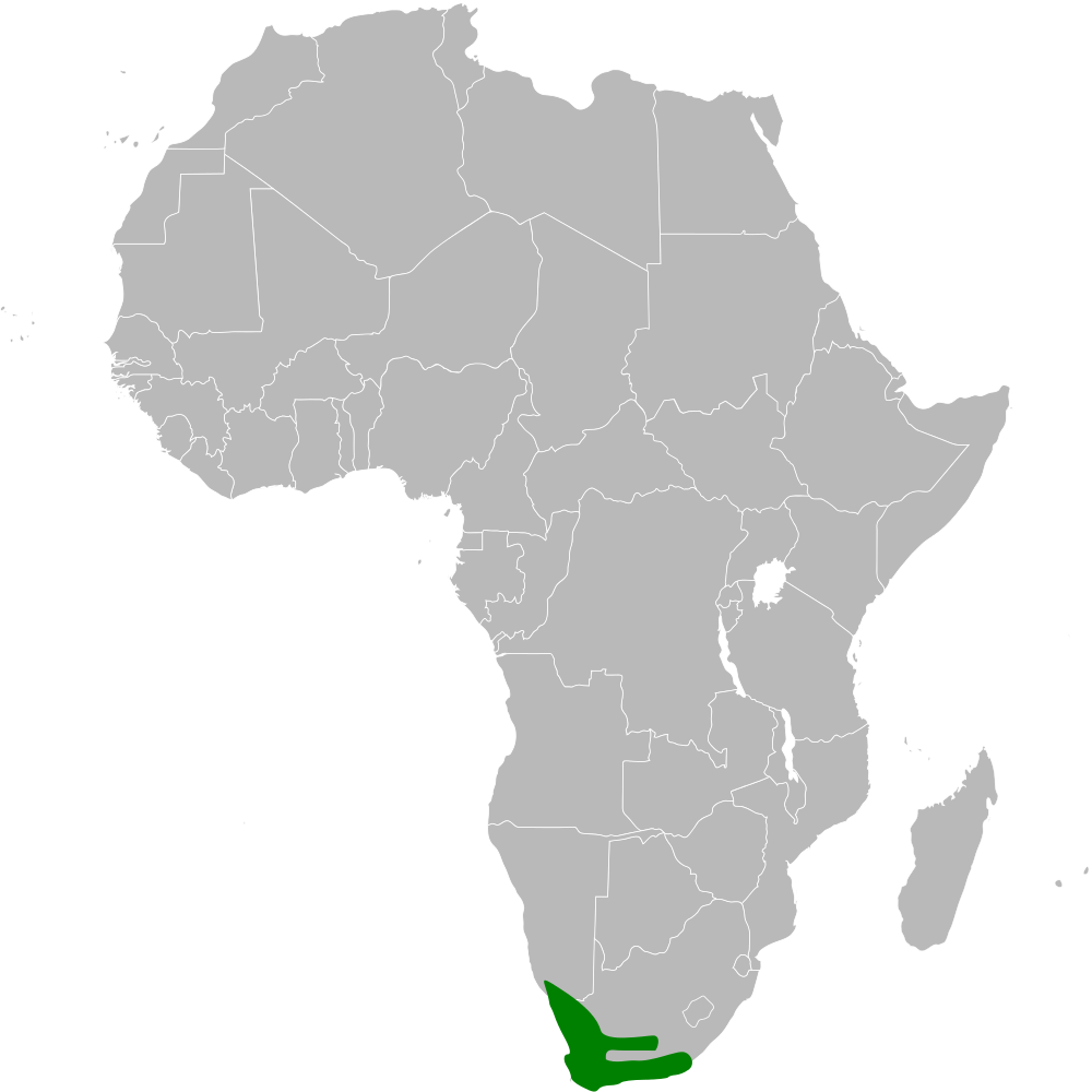 Mirafra apiata distribution map; using BlankMap-Africa.svg, based on